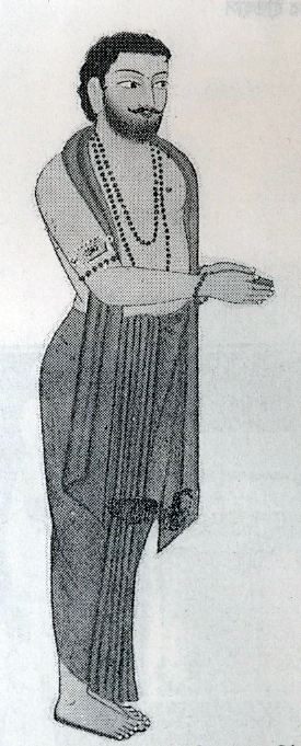 Image of Ramprasad Sen from "Brihad Banga" Dinendra Chadra Sen, Calcutta Univercity, Calcutta, 1935 pg 542